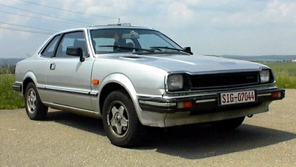 Honda Prelude (1978-1983 Typ SN)